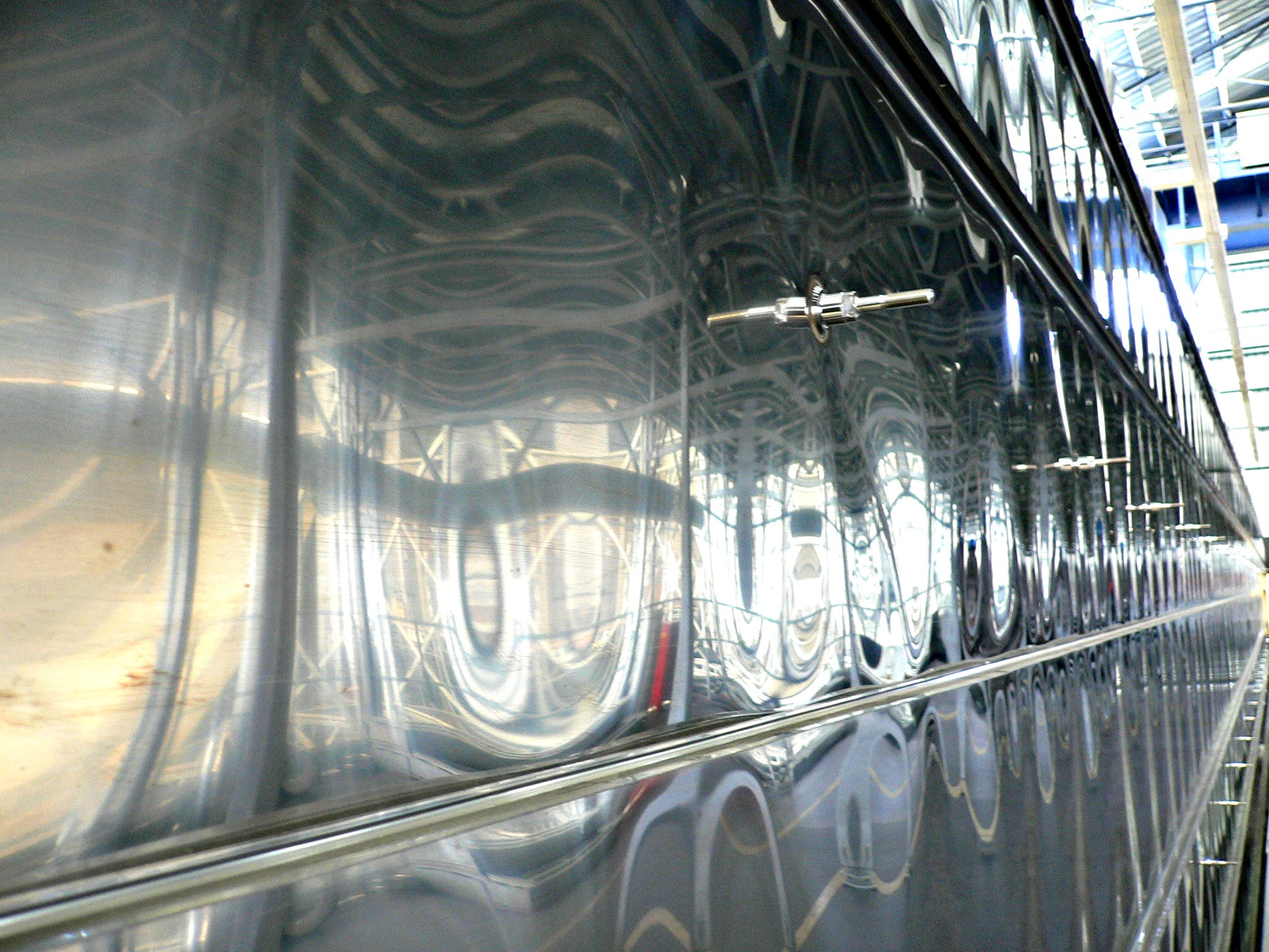 The Dapeng Sun under construction in Shanghai. This is one of layers of insulation that contains the LNG